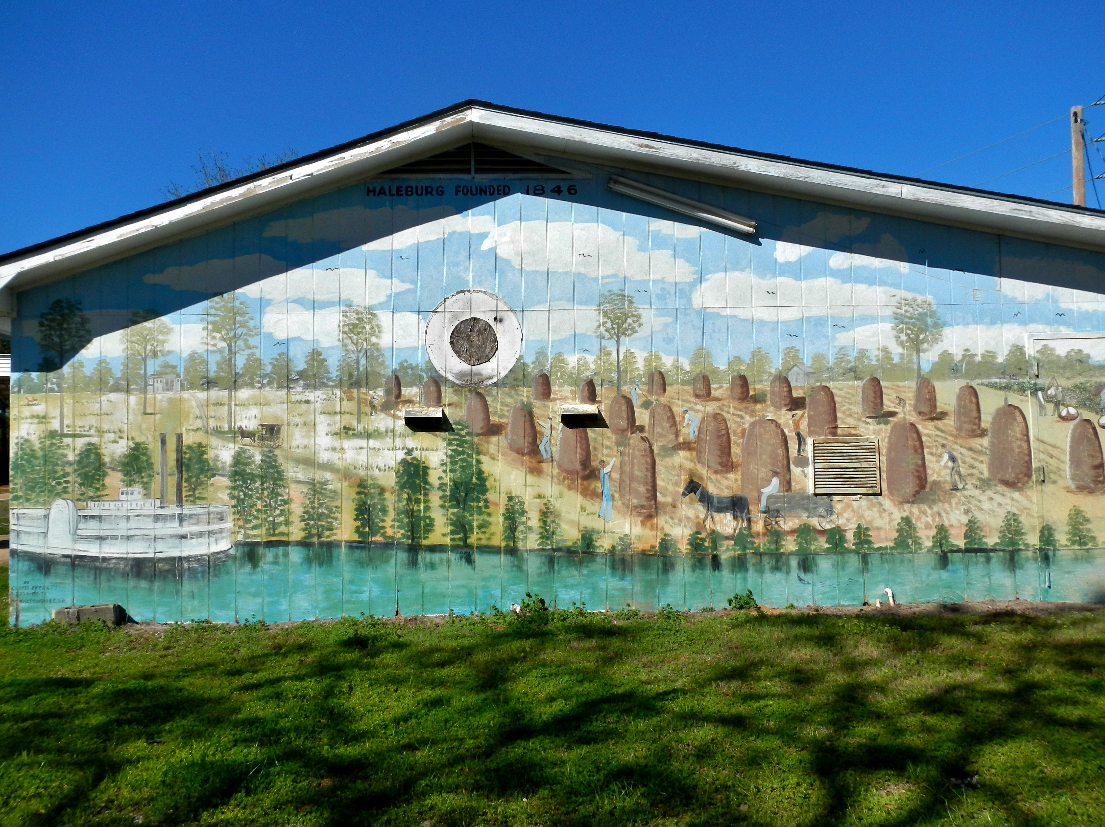 A mural in Haleburg, Alabama depicts the town's agricultural roots.